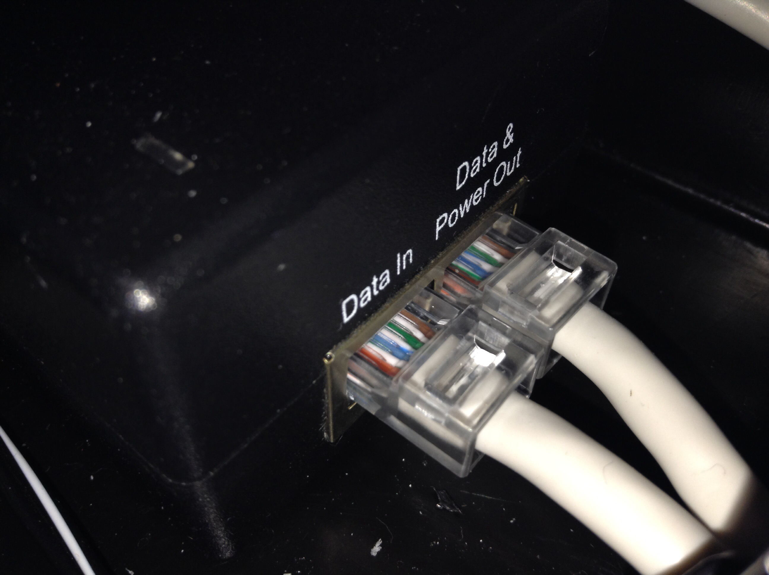 A power over Ethernet (POE) injector